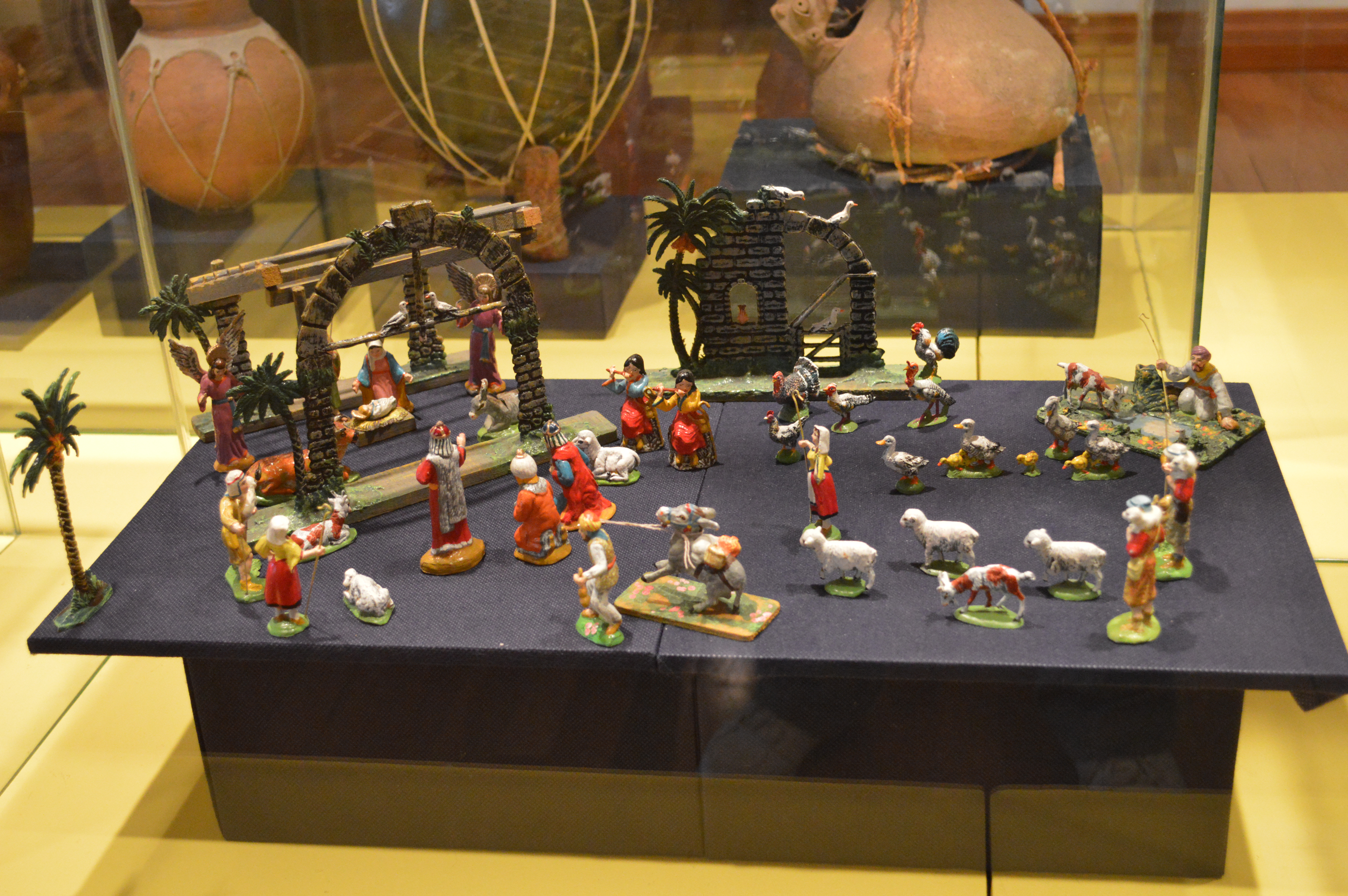 30 piece lead miniature nativity scene from the Distrito Federal at the Coleccionismo en el Arte Popular at the Railway Museum in San Luis Potosi, Mexico